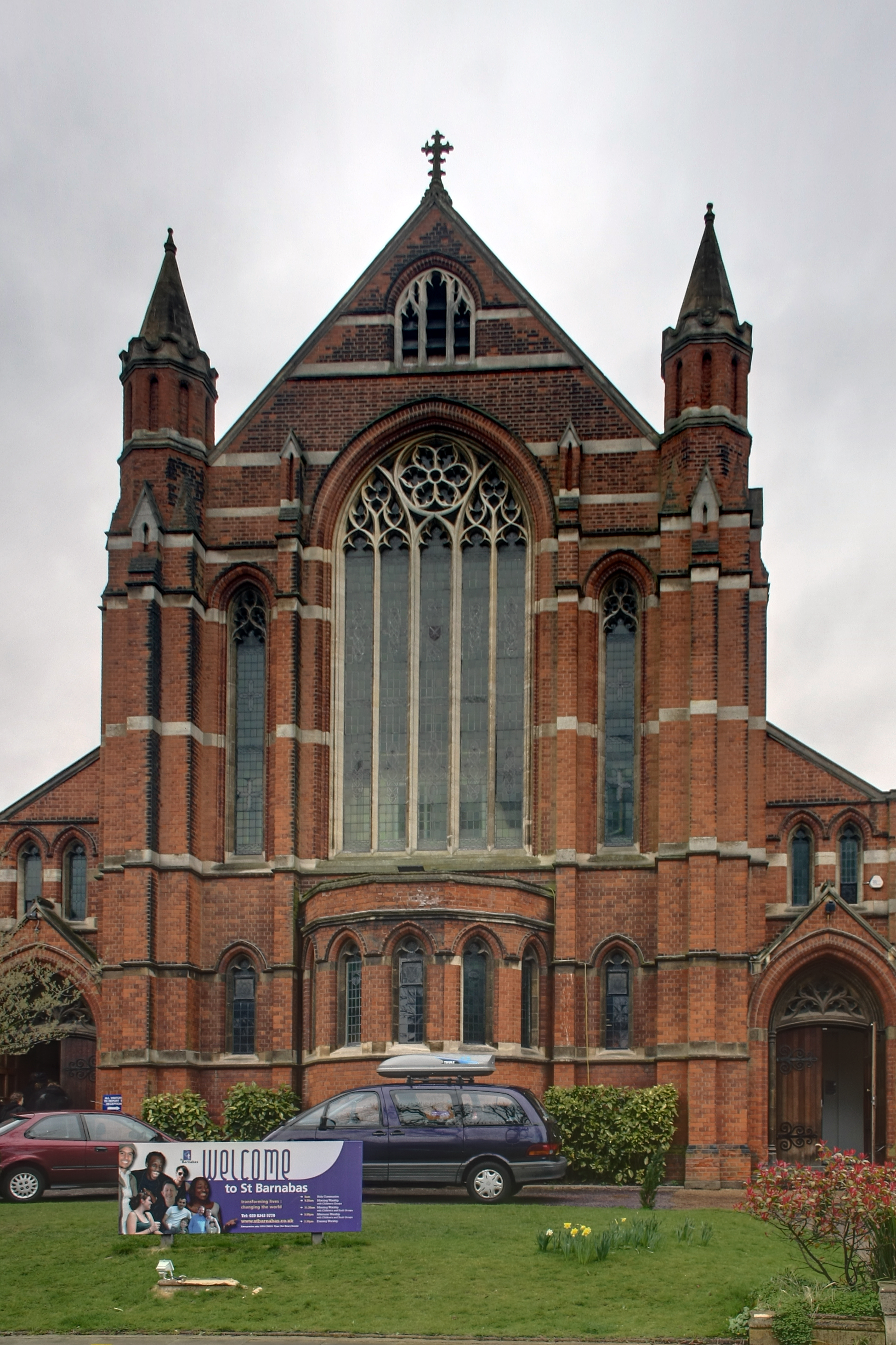 St Barnabas' parish church, Holden Road, Finchley, London N12, seen from the west Architect - John Samuel Alder